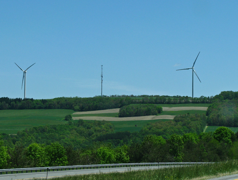 A wind farm in the mountain tops just north of the village of Cohocton in Steuben County, east of the stretch of I-390 that is between exits 2 and 3.Wind farms upstate New York